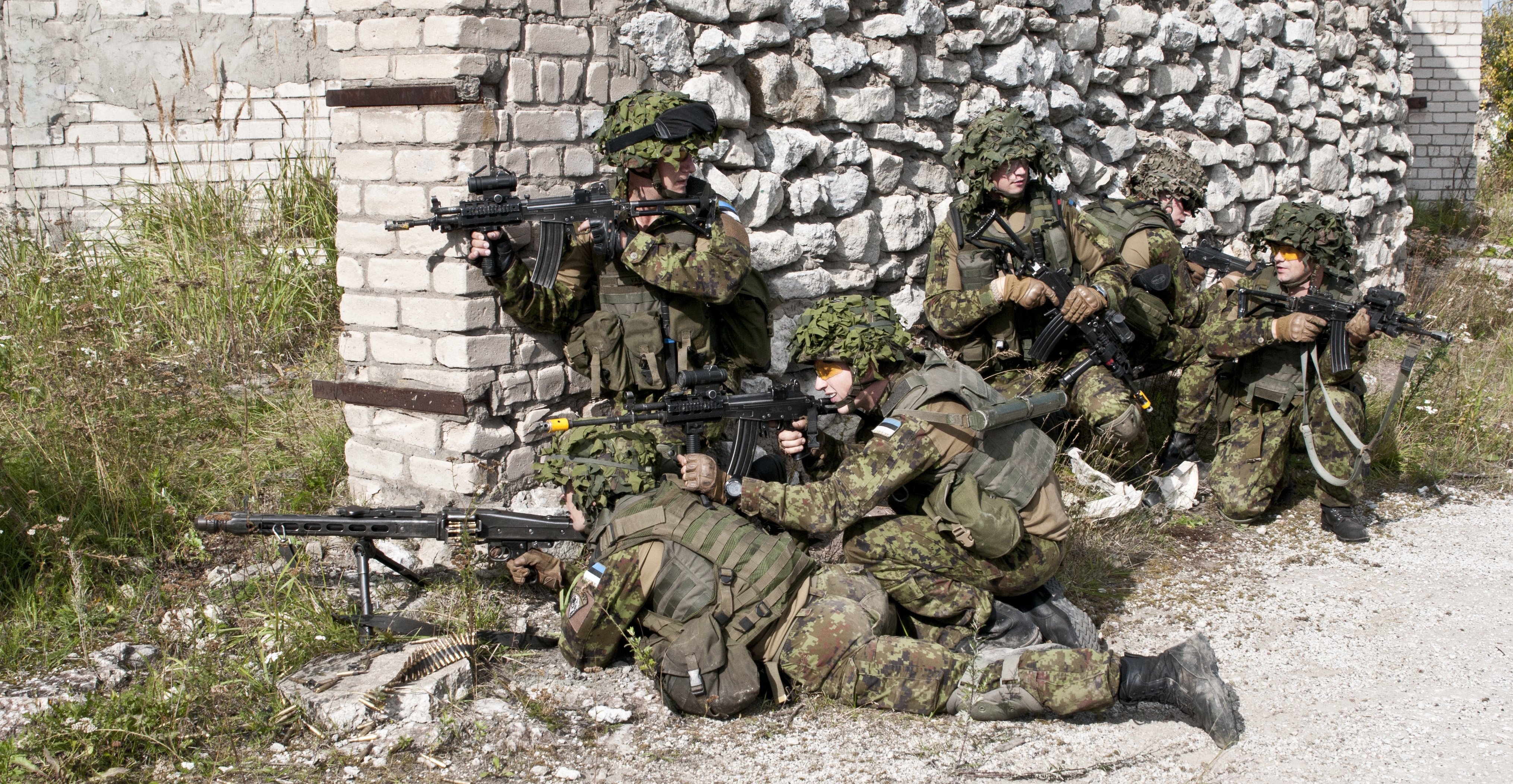 Estonian Defense Forces soldiers from Company C, Single Scouts Infantry Battalion lay down covering fire as they prepare to assault a building Sep. 4 at Murru Vangra, an abandoned prison in Rummu, Estonia. The Estonian Scouts Battalion rehearsed with American paratroopers from the 173rd Airborne Brigade in preparation for a night raid training mission at the prison. The raid was part of Steadfast Javelin II, a NATO exercise involving more than 2,000 troops from nine nations conducting various training missions across Estonia, Germany, Latvia, Lithuania and Poland.